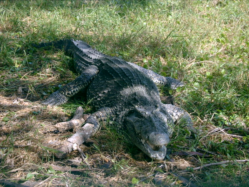 Cuban crocodile in Ciénaga de Zapata, Cuba. Photo by User:Friman now. 2004.